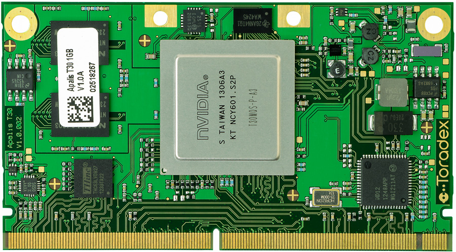 Toradex Apalis T30 NVIDIA Tegra 3 Computer on Module product image